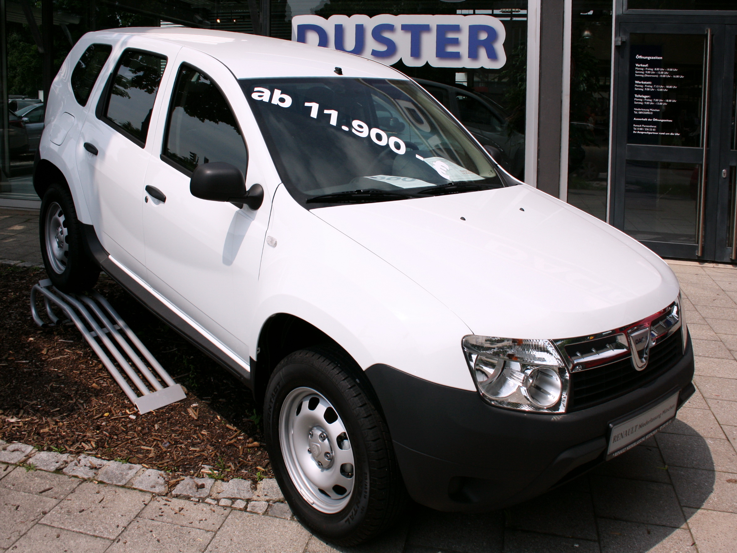 Dacia Duster - new car